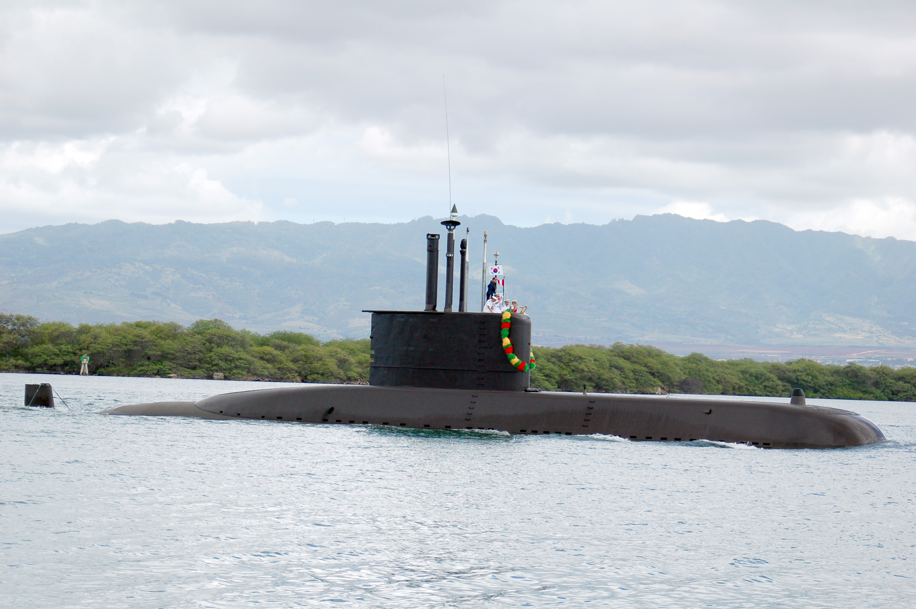 080528-N-2218M-011 PEARL HARBOR, Hawaii (May 28, 2008) The Korean submarine Lee Sunsin (SSK 068) arrives at Naval Station Pearl Harbor, becoming the first foreign vessel to arrive to take part in the Rim of the Pacific (RIMPAC) Exercise. U. S. Navy photo by Mass Communication Specialist Seaman Apprentice Luciano Marano (Released)中文（中国大陆）: 080528-n-2218m-011珍珠港，夏威夷（2008年5月28日）韩国潜艇李尚讯（SSK 068）抵达珍珠港海军基地，成为到达参加太平洋边缘的第一个外国船舶（RIMPAC）运动。美国海军照片质量专员希曼学徒卢西亚诺Marano（发布）